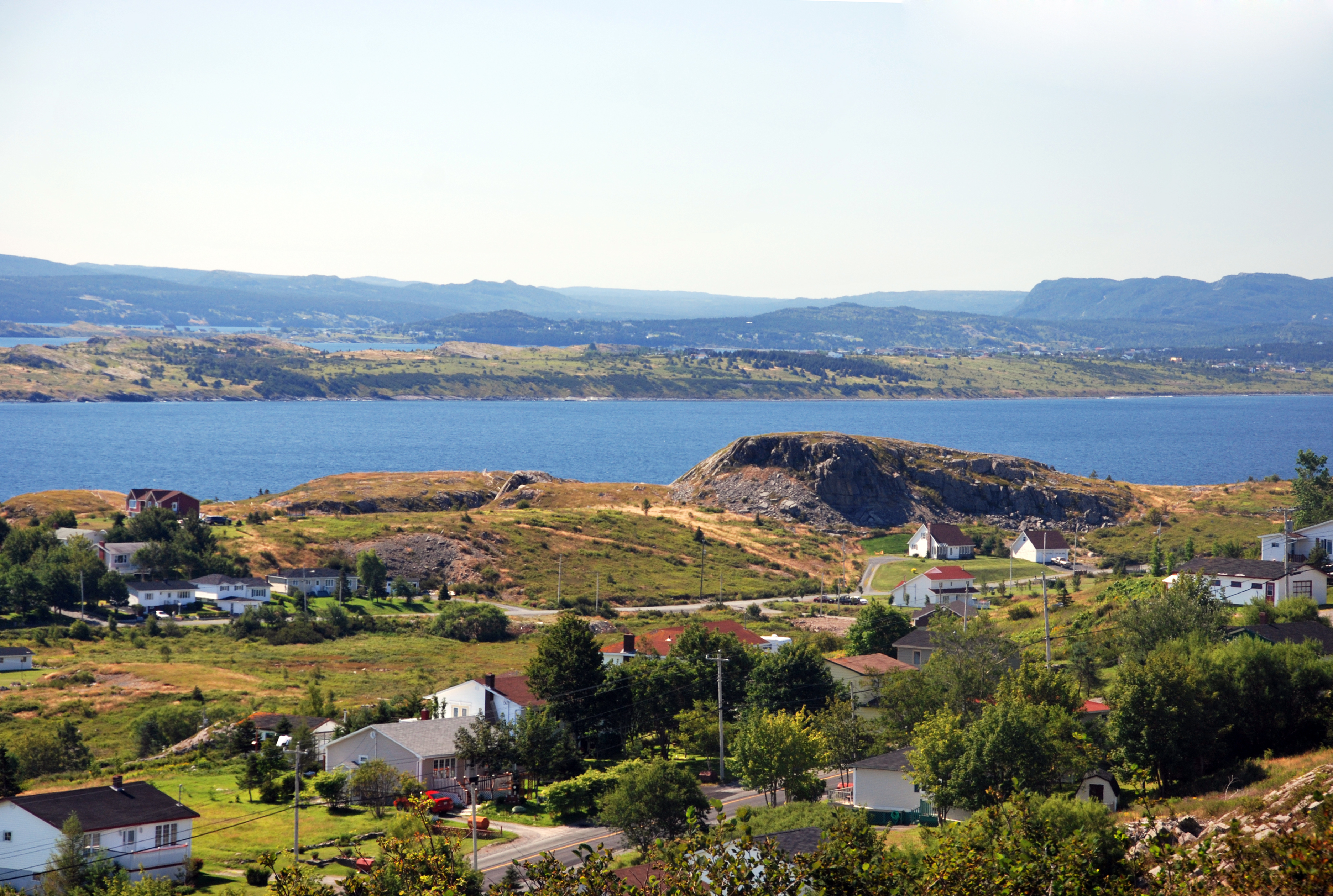 Overlooks Conception Bay